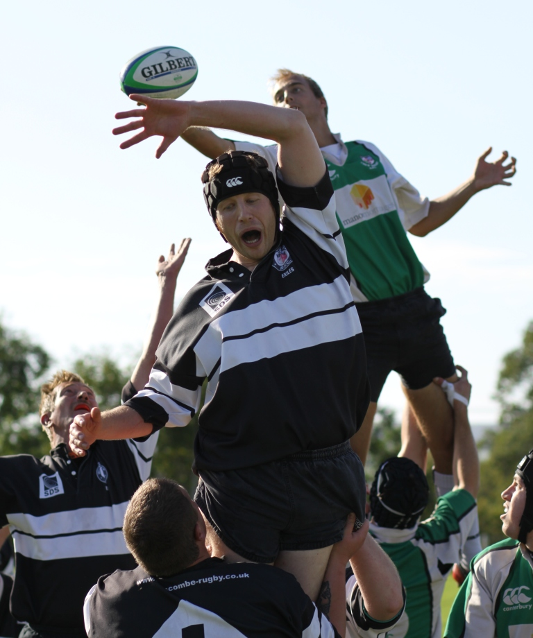 Photograph taken by Tony Young, 12 Oct 2009, Winscombe 3rd XV vs. Chew Valley 2nd XV. Copyright waived - image is free.